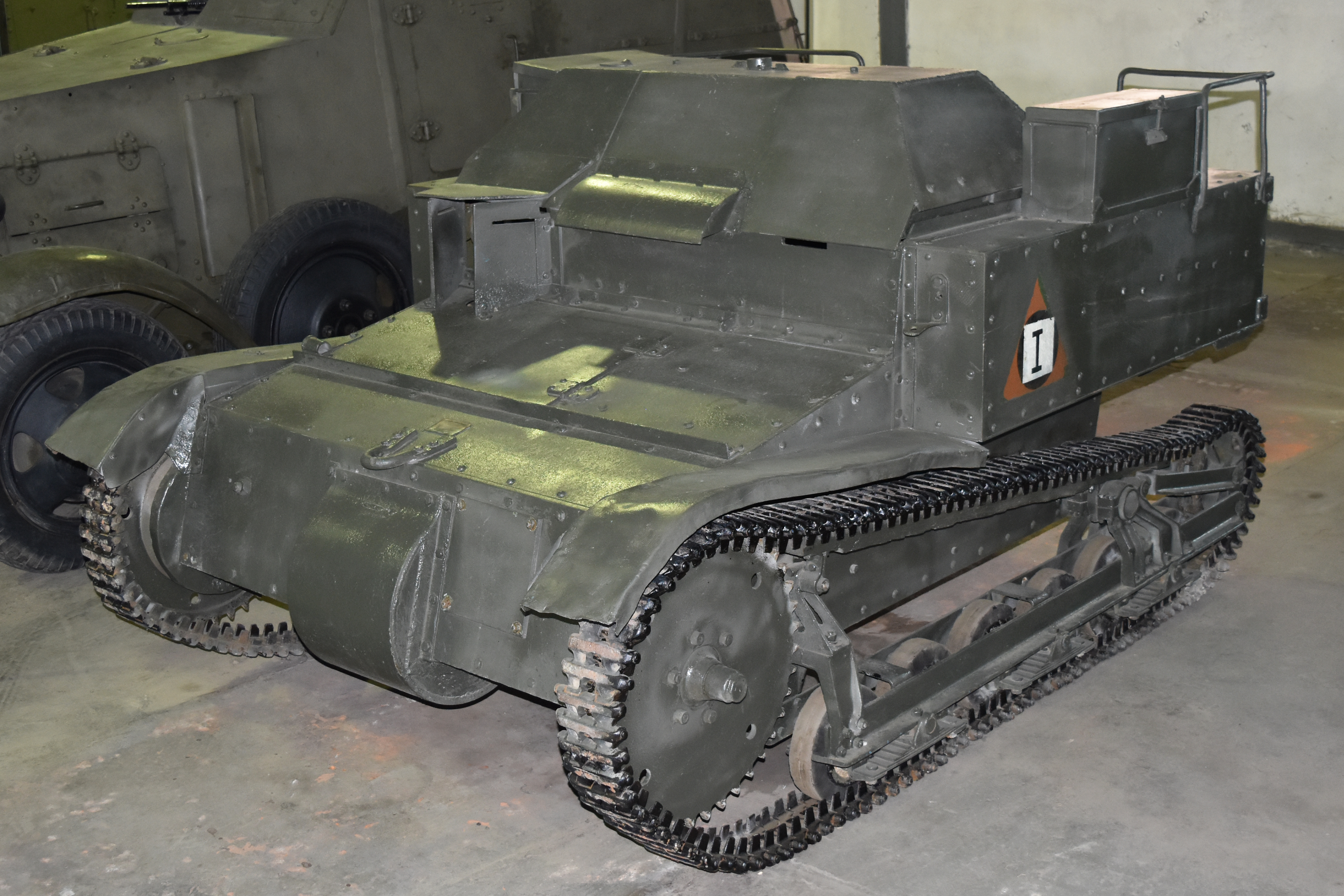 Manufacturer:- Bolshevik Factory Built:- 1931 to 1933 Total production:- 2,540 Main Armament:- 7.62mm DT machine gun Based on the Carden Lloyd Tankette which was bought under license in 1930, but with several modifications to help it cope with the Russian climate. The type was last seen in combat during the Battle of Moscow in December 1941. On display in what is best known as Hall 4 of the Kubinka Tank Museum, although its official title is now Pavilion 4 in Area 2 of the Park Patriot museum. Kubinka, Moscow Oblast, Russia. 24th August 2017.